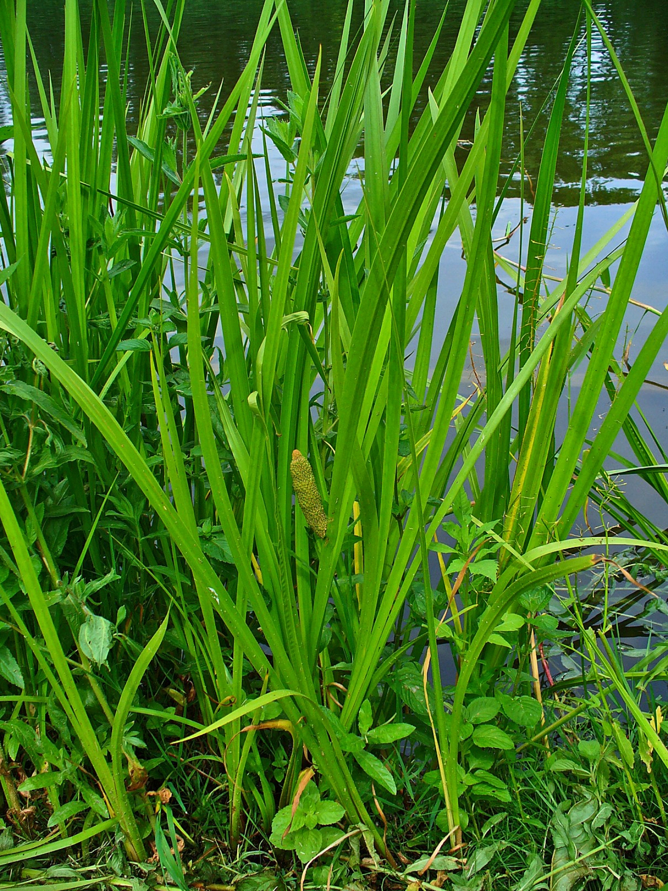 Sweet Flag, Calamus, habitus; Karlsruhe, Germany. The dried and peeled rhizome is used in homeopathy as remedy: Calamus aromaticus (Calam.)